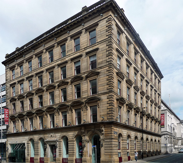 Very imposing Classical stone-faced warehouse, by Clegg & Knowles, c1868. Diminishing decoration to the windows and rusticated arcades to the ground floor. Grade II listed. It was built for Ralli Brothers, shipping merchants. Now retail outlet at street level (occupants at the time of the photo, Double Take Studios, have since gone into administration), and offices above.